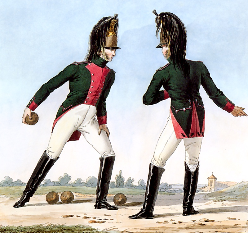 Part of a series chronicling the uniforms of Napoleon's Grande Armée.